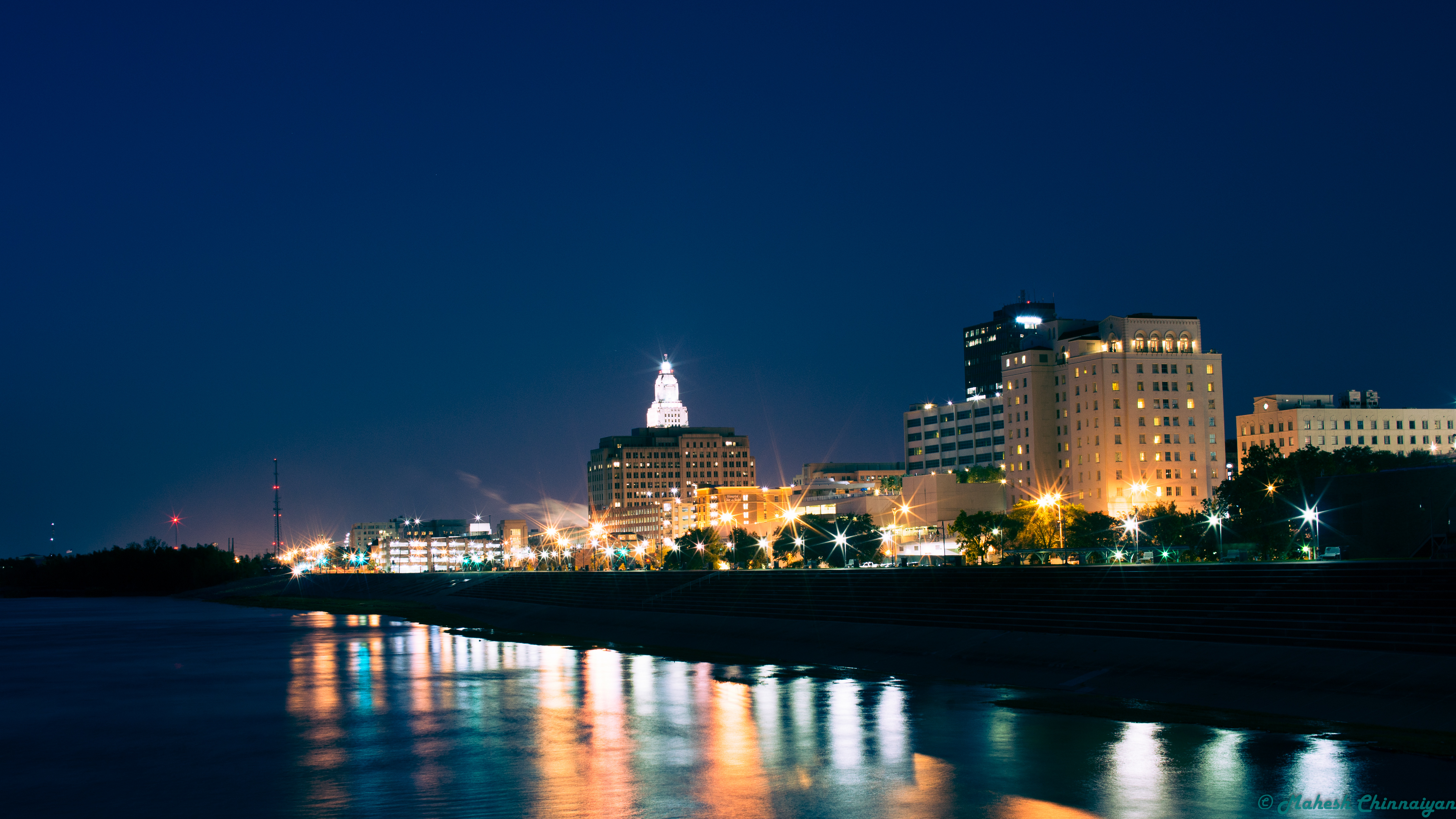 Night view of Baton Rouge from Mississippi River